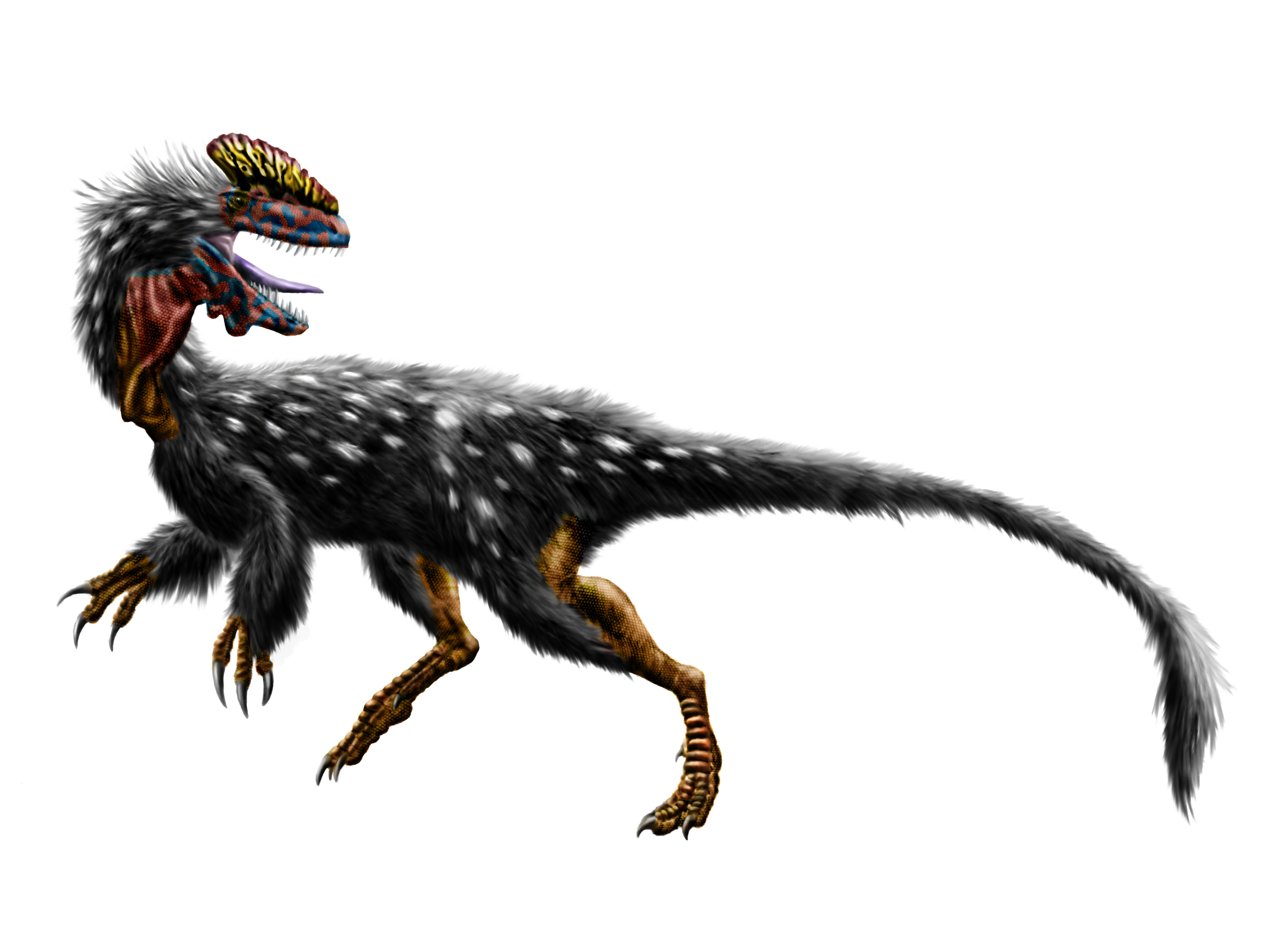 The crowned dragon Guanlong wucaii from the Late Jurassic (160 mya) of China.